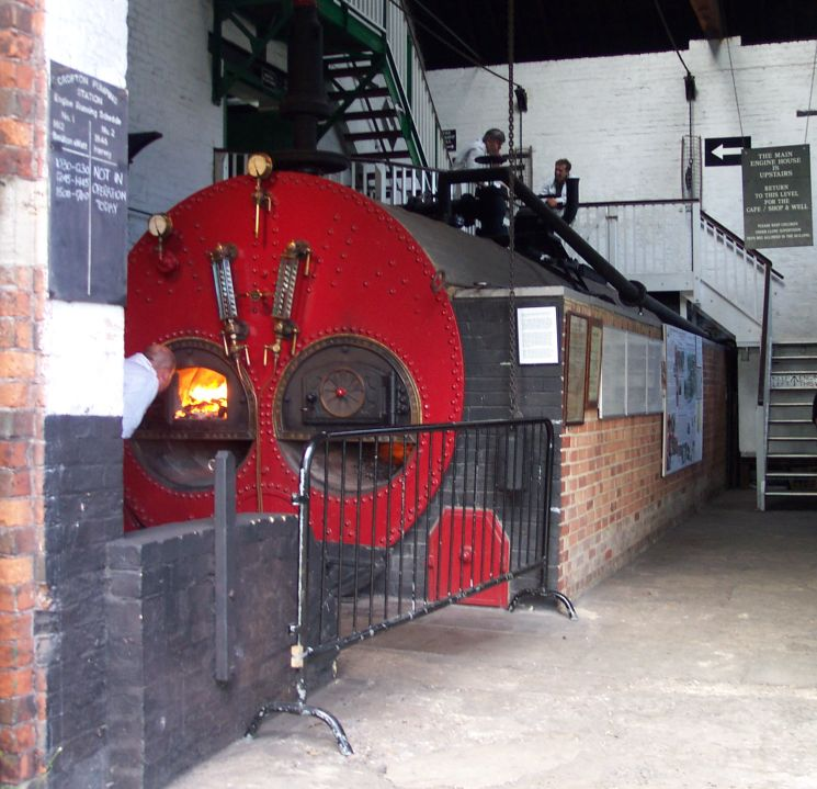 The boilers at Crofton Pumping Station.